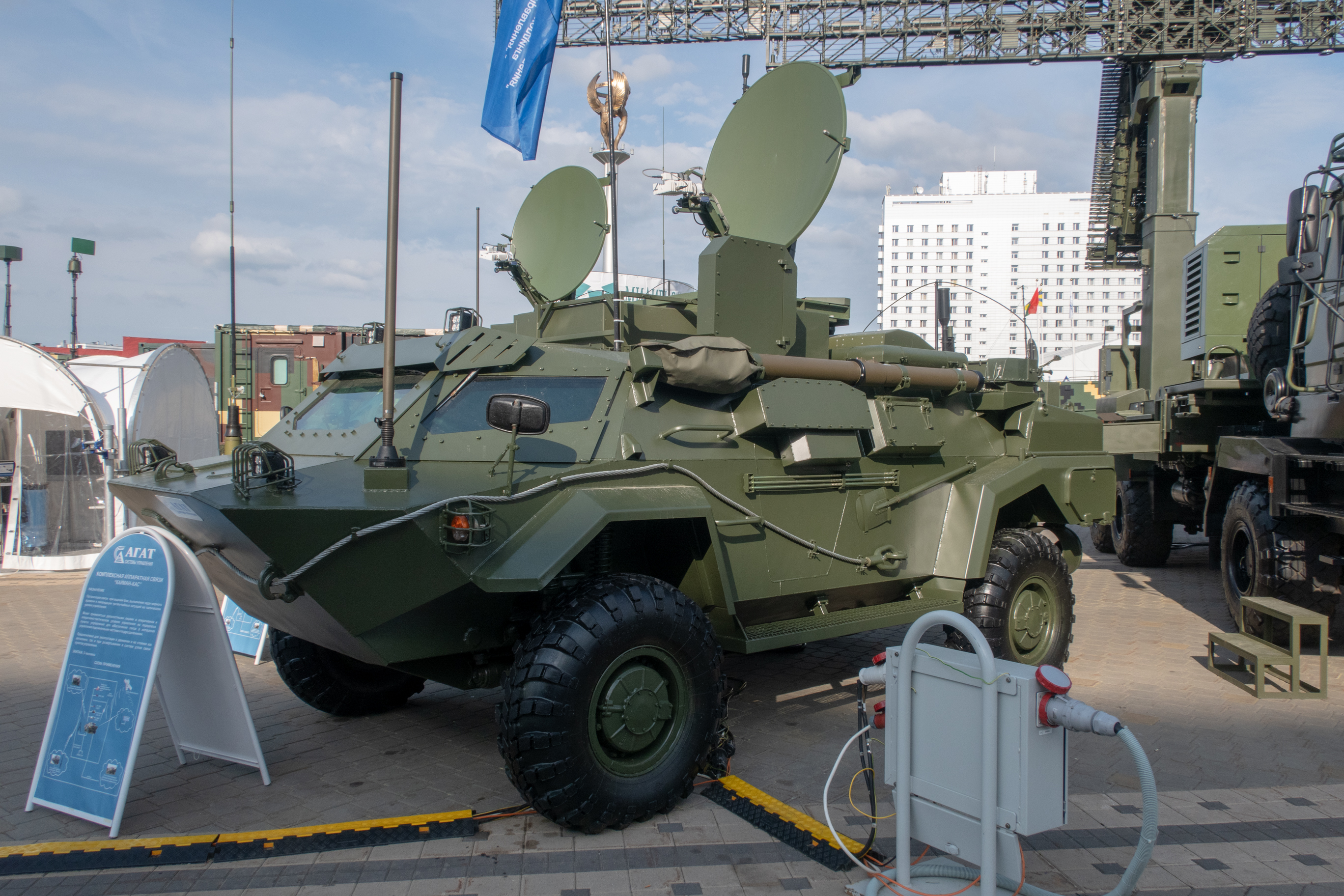 Military mobile radars on Caiman (Kayman) chassis. Milex-2019 arms and military machinery exhibition (Minsk, Belarus)